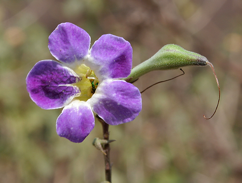 Ganges Primrose, creeping foxglove or Chinese Violet Asystasia gangetica in Hyderabad, India.